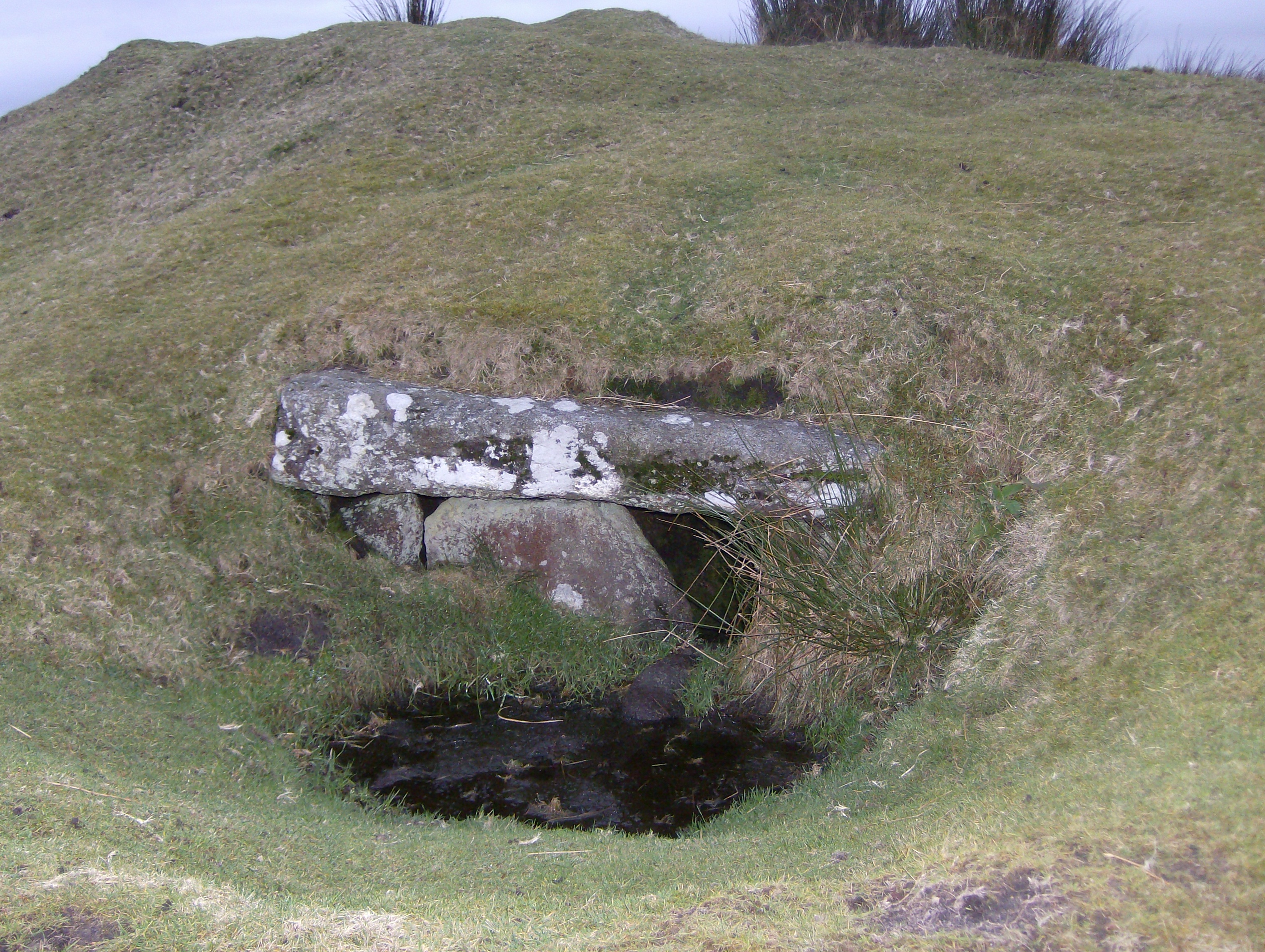 The Rillaton Barrow, an ancient burial mound on Bodmin Moor, close to the village of Minions in South East Cornwall.